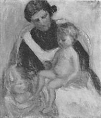 A painting of a woman holding a young child, black and white reproduction from color original from the 1913 Armory Show